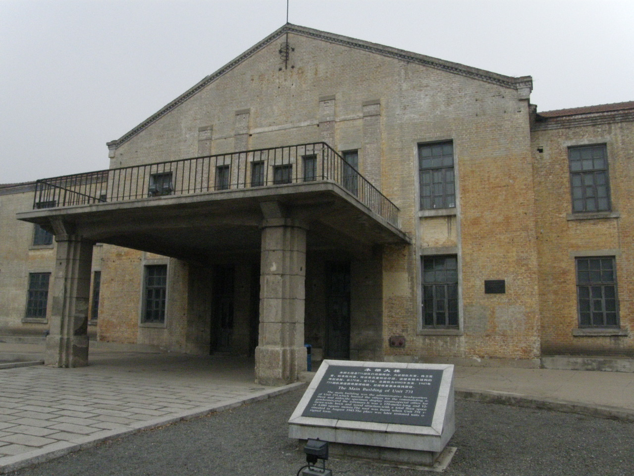 Building on the site of the Harbin bioweapon facility of Unit 731